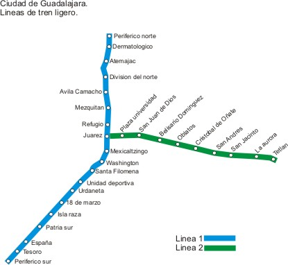 Map of the Guadalajara light rail system. Line 1 is partially underground and partially at-grade (on the surface), and the at-grade sections include several level crossings. Line 2 is entirely underground.